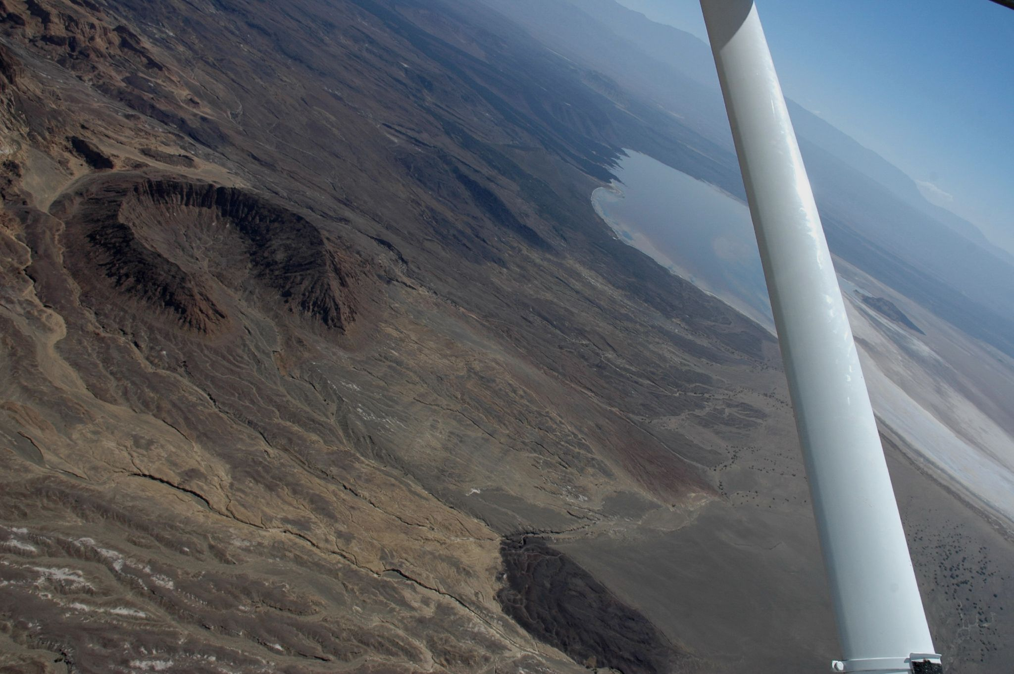 Lake Logipi in the Suguta Valley, Kenya